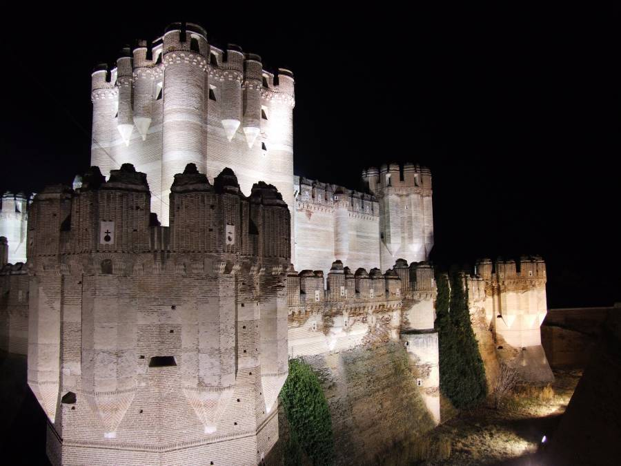 Castle of Coca